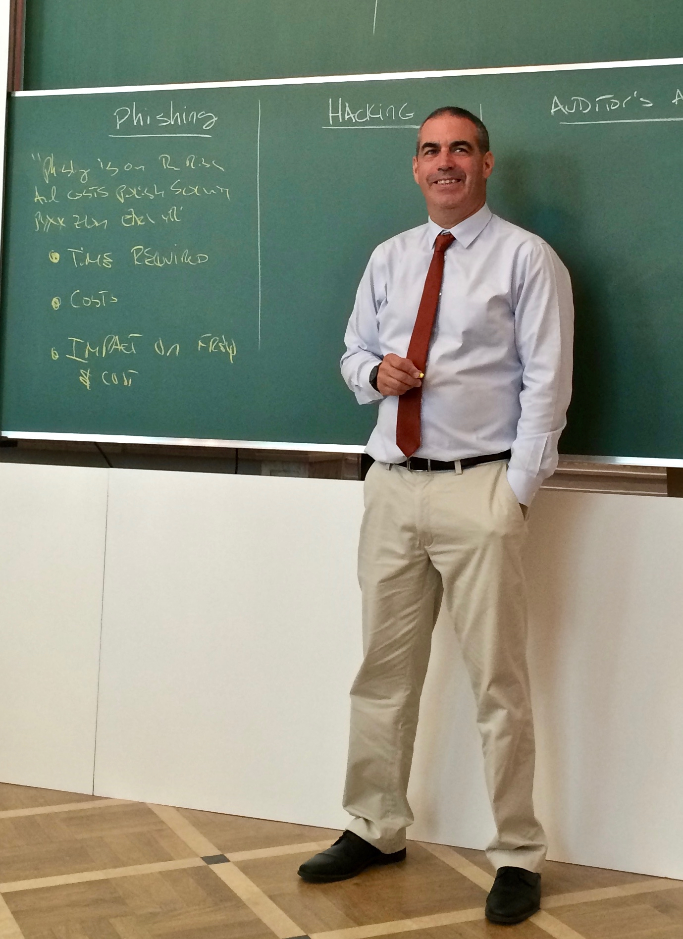 Prof Mike Rosenberg teaching